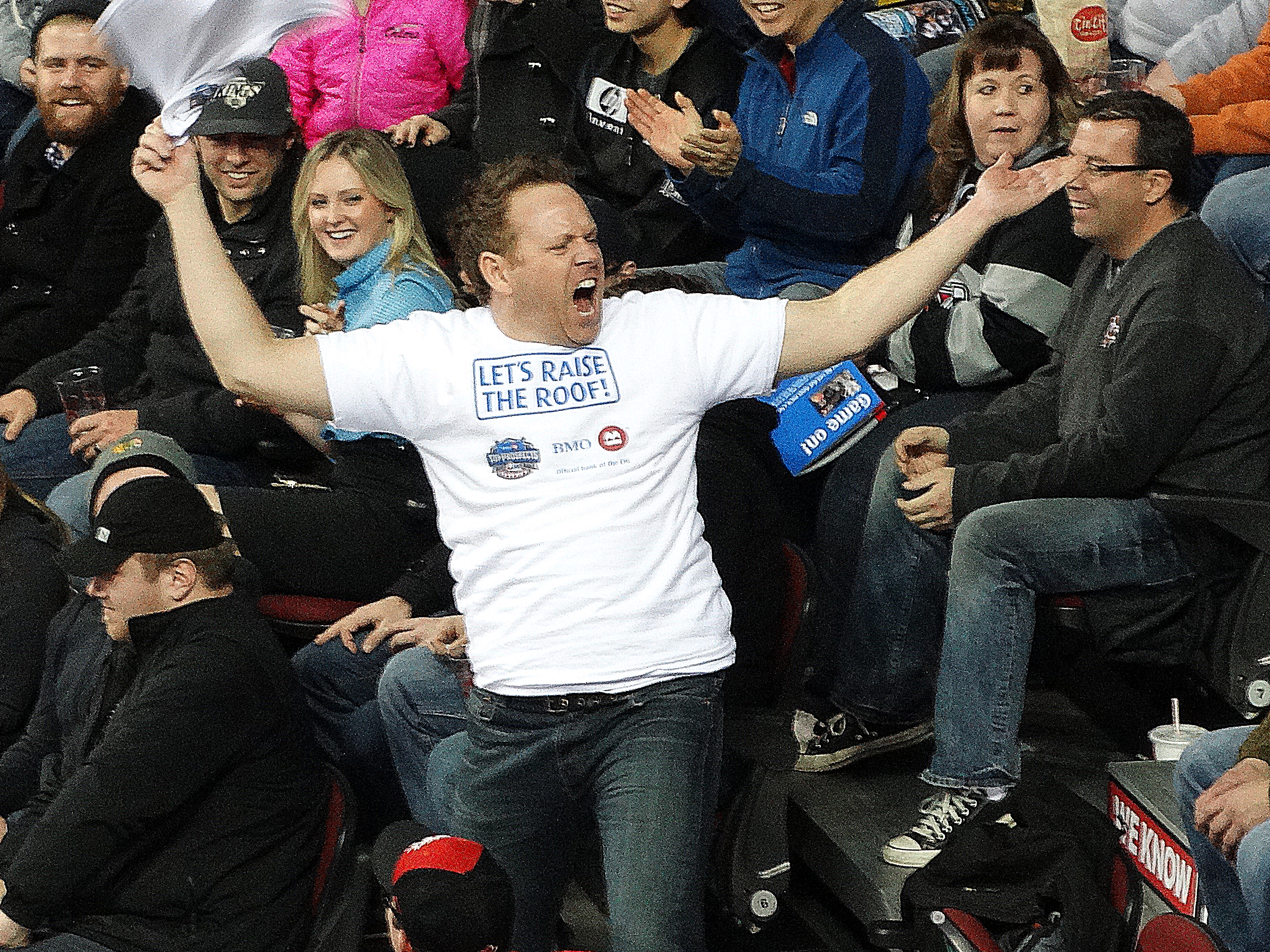 Cameron Hughes makes his living as a professional fan. He gets paid by sports teams across North America to rile up the crowd. The CHL / NHL Top Prospects game at Scotiabank Saddledome on January 15, 2014 in Calgary, Alberta, Canada. Team Orr defeated Team Cherry 4-3.